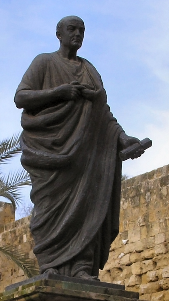 Lucius Annaeus Seneca, sculpture by Puerta de Almodóvar in Córdoba.